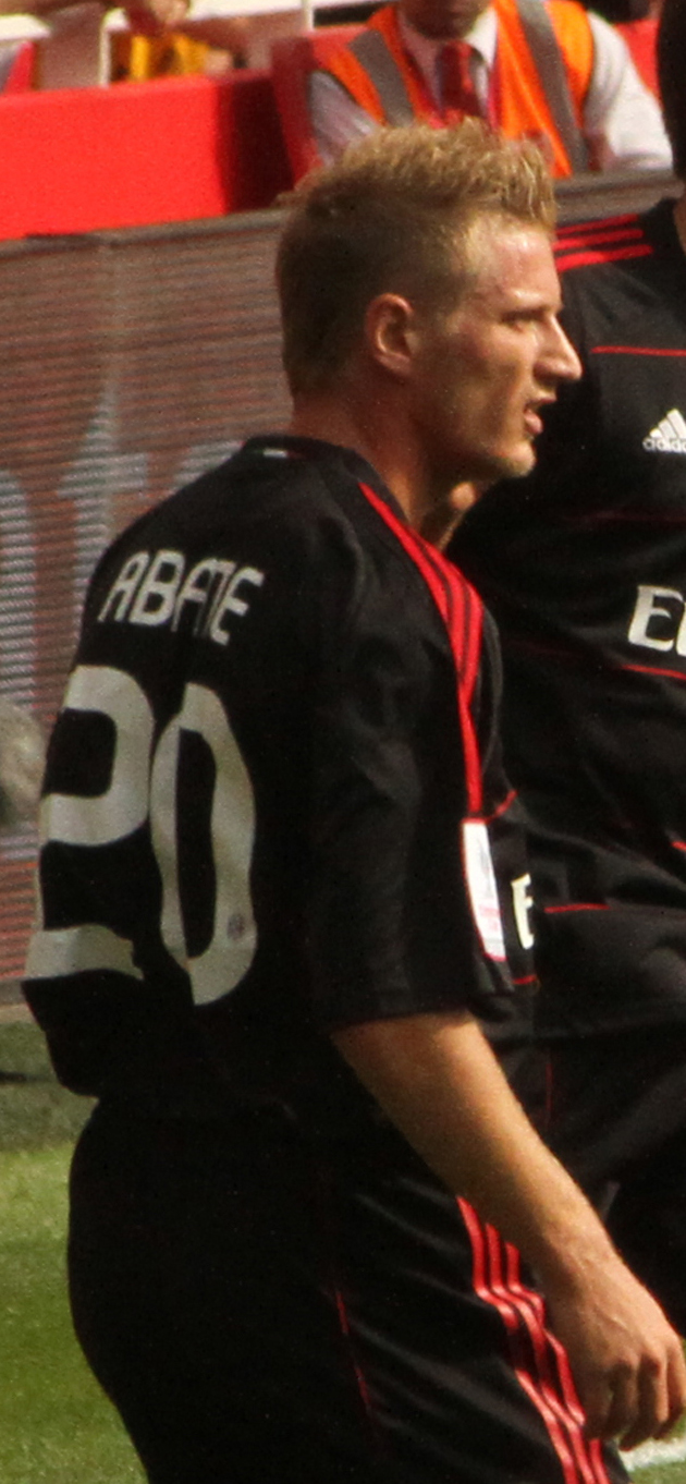 Ignazio Abate